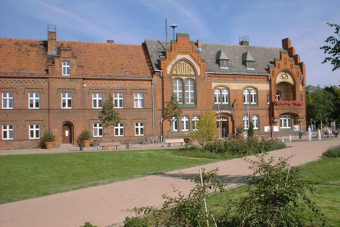 Town hall in Genthin in Saxony-Anhalt, Germany